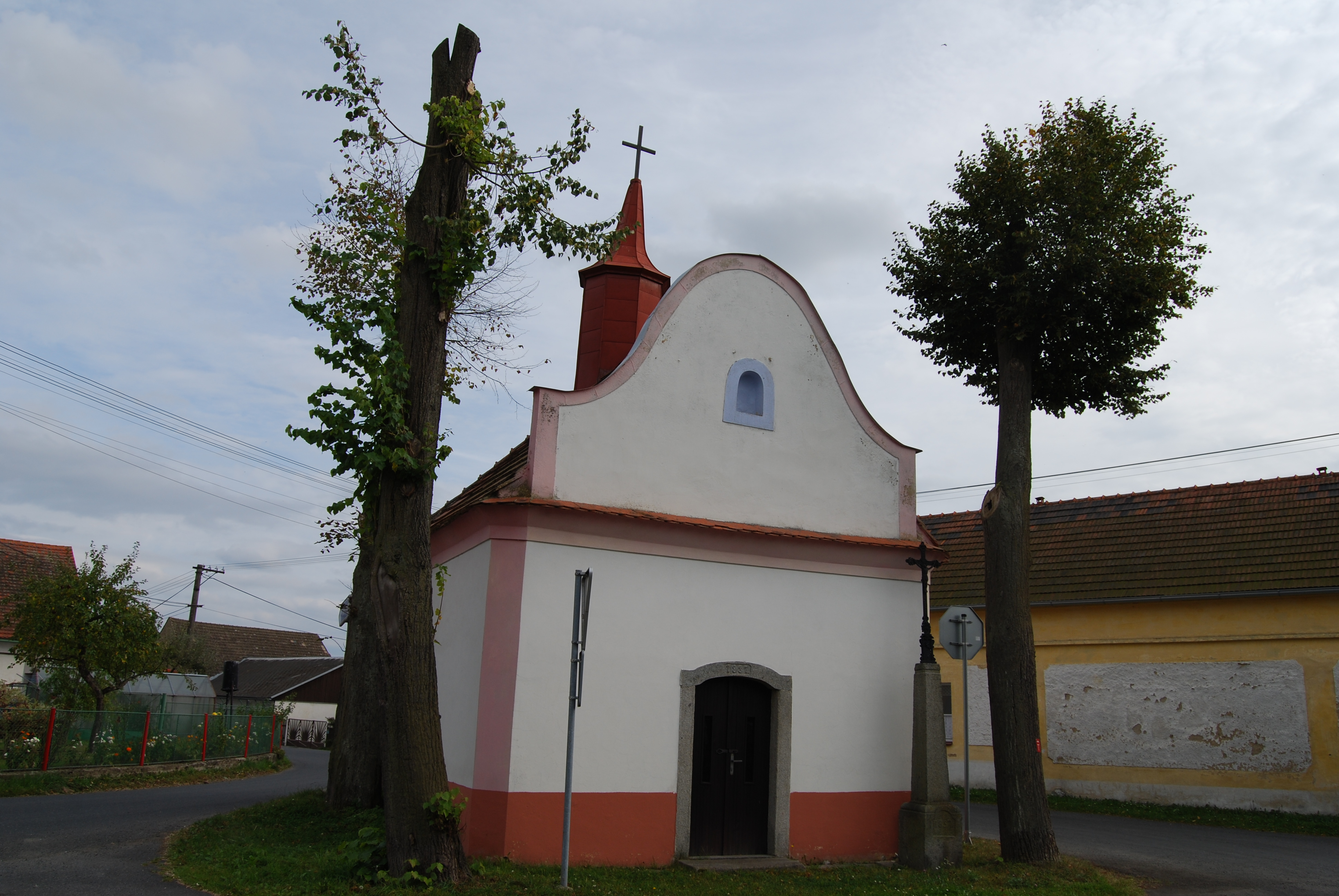 Mladý Smolivec, Plzeň-South District, Czech Republic. Chapel